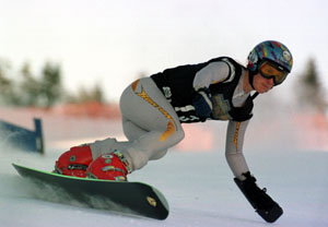 U.S. snowboarder, Betsy Shaw of East Dorset, VT carves a turn in the second run of the Giant Slalom during the Chevy S-10 U.S. Snowboard Grand Prix at Mt. Bachelor, OR on Thursday, Dec., 17, 1998. Shaw took home $10,000. USD when she won todays event. (USSA Photo/Nathan Bilow)